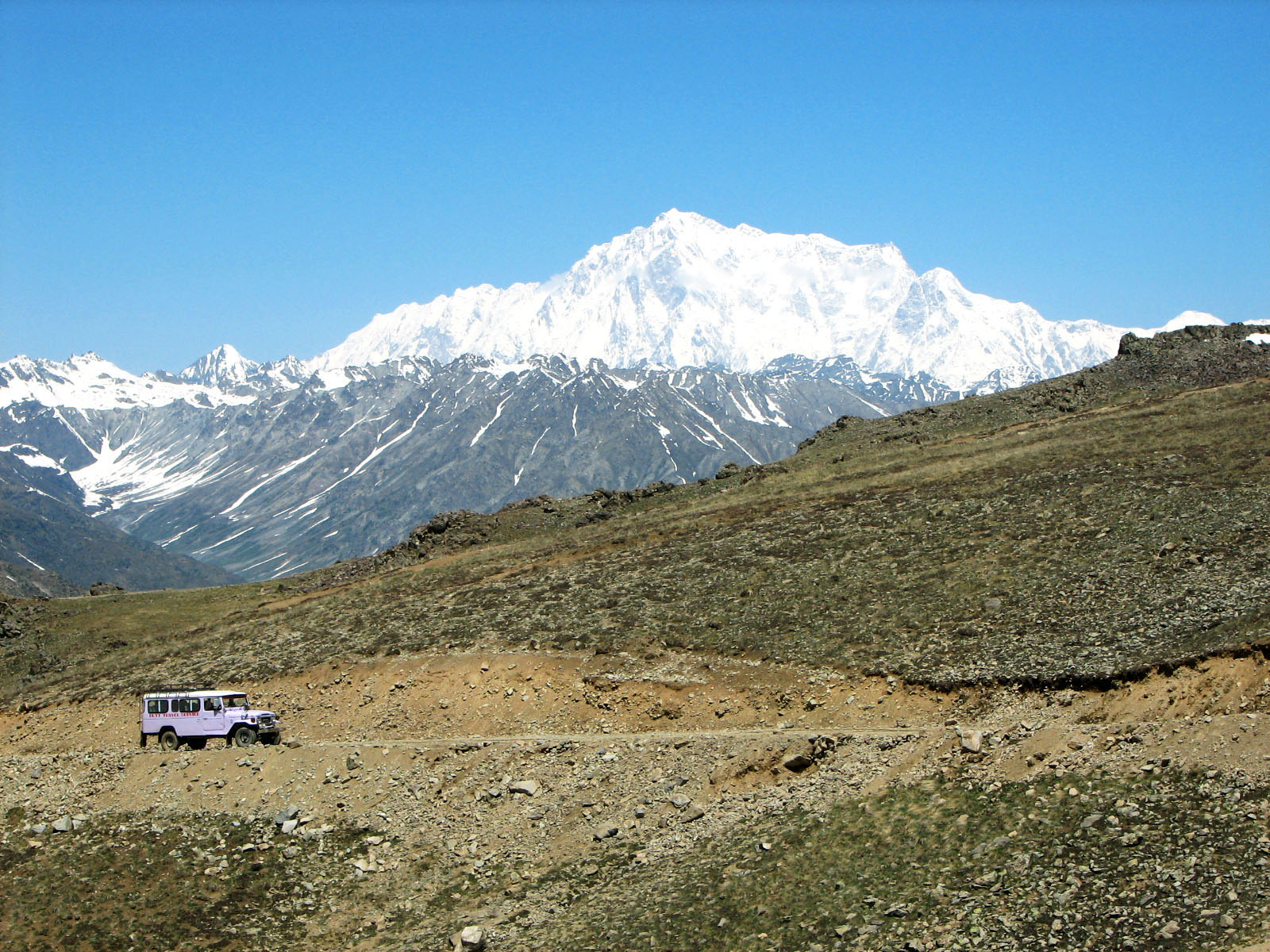 A view of Nanga Parbat from Deosai, Northern Areas of Pakistan. Image taken on June 21, 2006, by Abdul Rafey Khan.